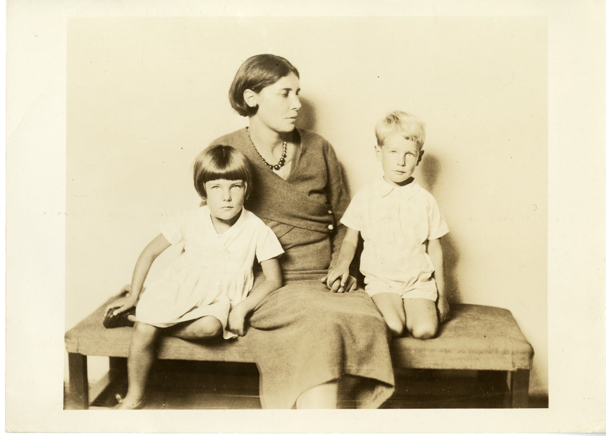 Subject: De Kok, Winifred 1893-1969 Type: Black-and-White Prints Date: Feb-35 Topic: Medicine Women scientists Local number: SIA Acc. 90-105 [SIA-SIA2008-4913] Summary: South African born writer and broadcaster Winifred May de Kok (1893-1969) had attended medical school in England during the 1920s and was in medical practice until 1953, when she became a television broadcaster, engaging in discussions of family life and health on her BBC program Tell Me, Doctor. This photograph was distributed in connection with the 1935 publication of Guiding Your Child through the Formative Years (Emerson Books). The author of many popular books, such as New Babes for Old (1932) and Your Baby and You (1957), de Kok was married to a well-known short story writer, Alfred Edgar Coppard, and is shown with their two children. Cite as: Acc. 90-105 - Science Service, Records, 1920s-1970s, Smithsonian Institution Archives Persistent URL:Link to data base record Repository:Smithsonian Institution Archives View more collections from the Smithsonian Institution.